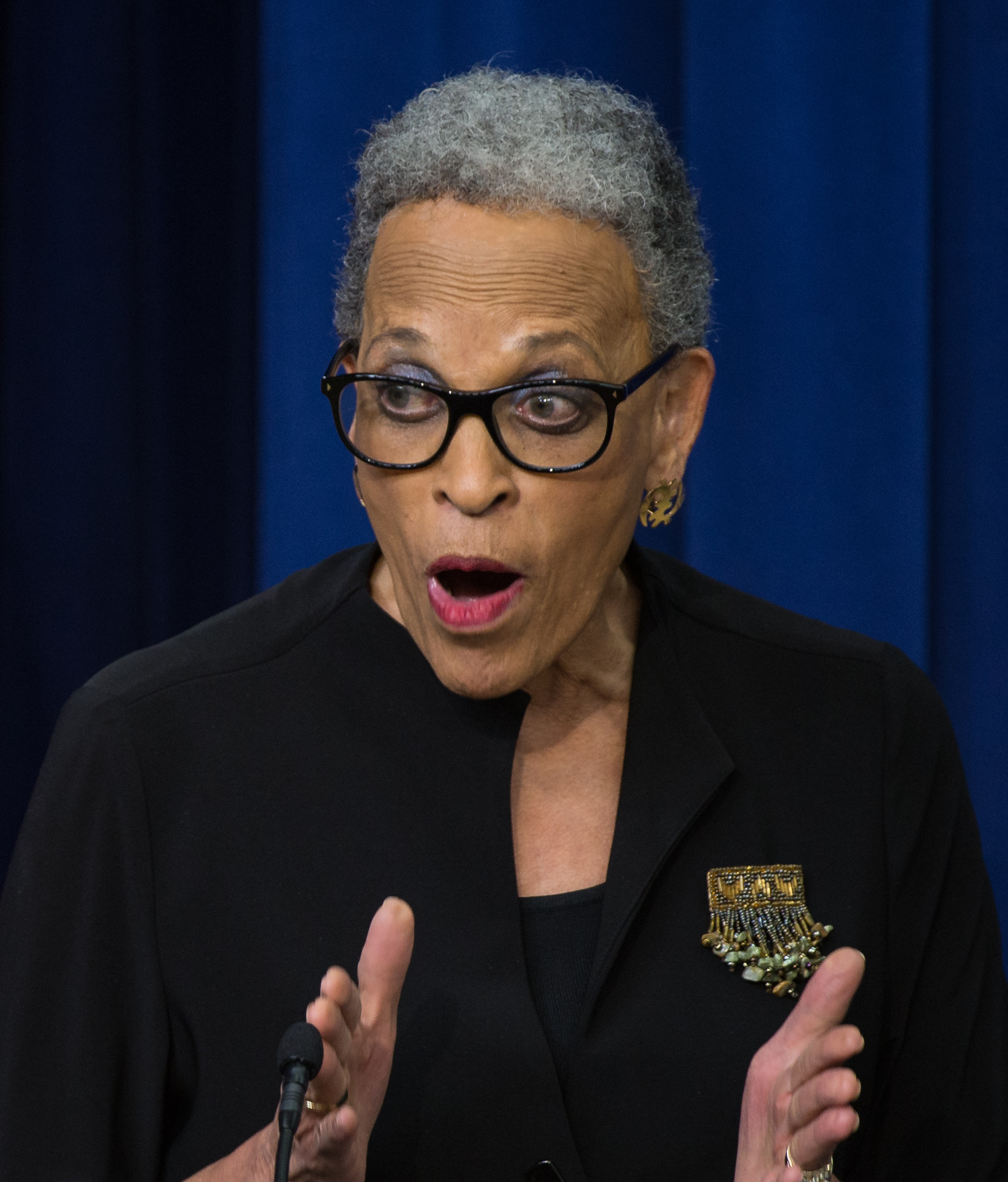 Dr. Johnnetta Cole, Director of the Smithsonian National Museum of African Art, speaks at the Young Women Empowering Communities: Champions of Change event on Tuesday, September 15, 2015 at the Eisenhower Executive Office Building in Washington, DC. The Champions of Change program was created by the White House to recognize 'individuals doing extraordinary things to empower and inspire members of their communities.""